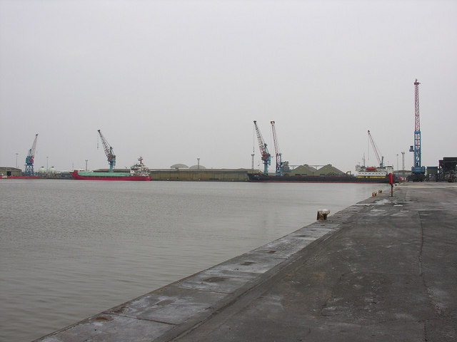 Immingham Dock, south and east quays Looking along the eastern section of the southern quay of the dock, with two ships on the shorter east end quay.